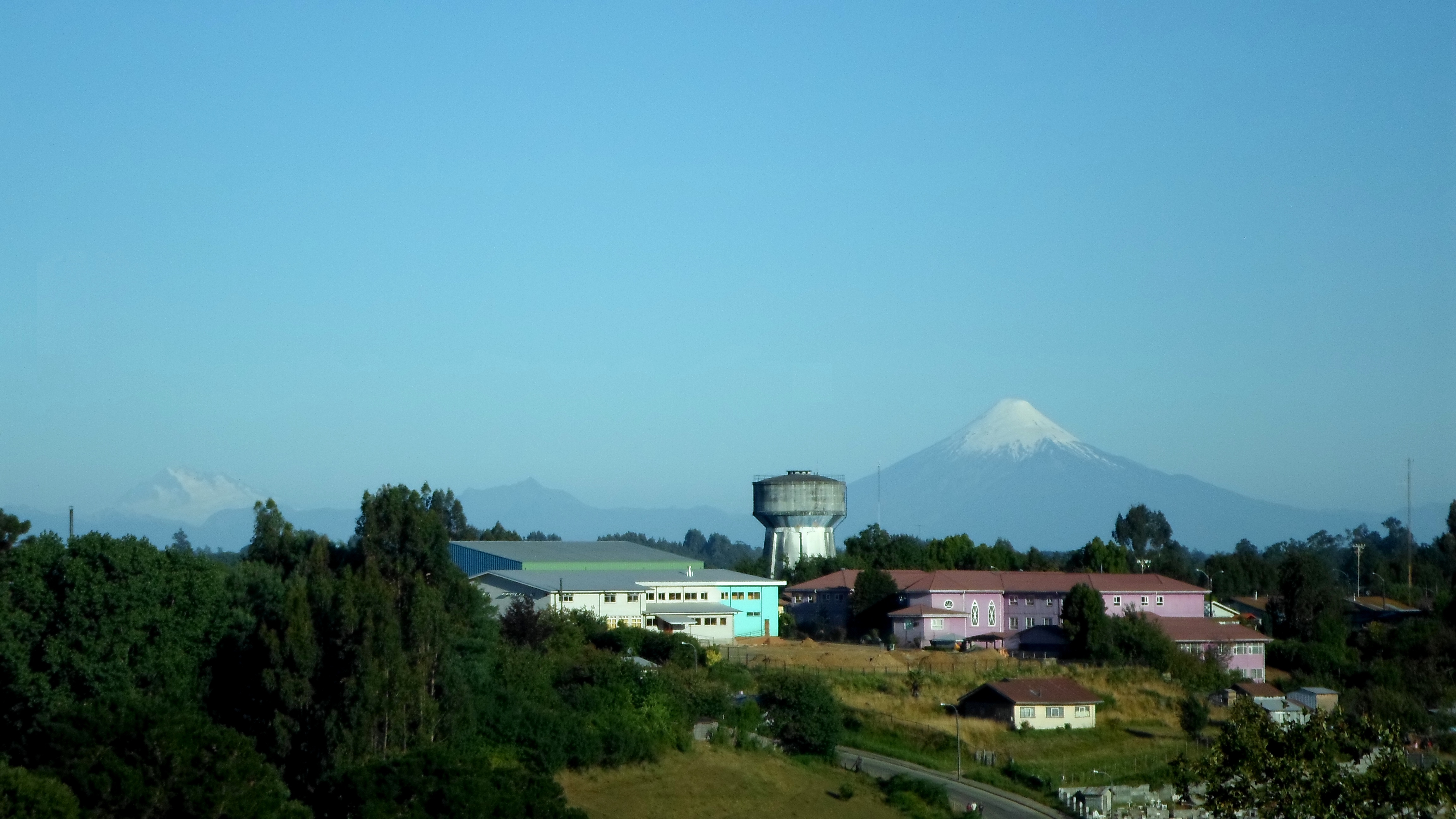 Rio Negro y Volcan Osorno